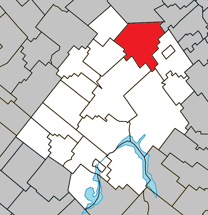 Location of Saint-Pierre-de-Broughton, Quebec within Les Appalaches Regional County Municipality.